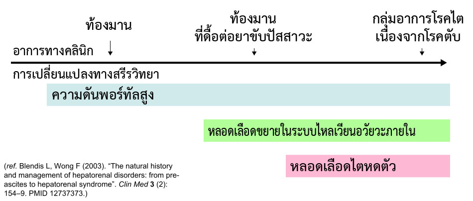 Figure demonstrating the correlation between hemodynamics and clinical consequences in ascites and hepatorenal syndrome.